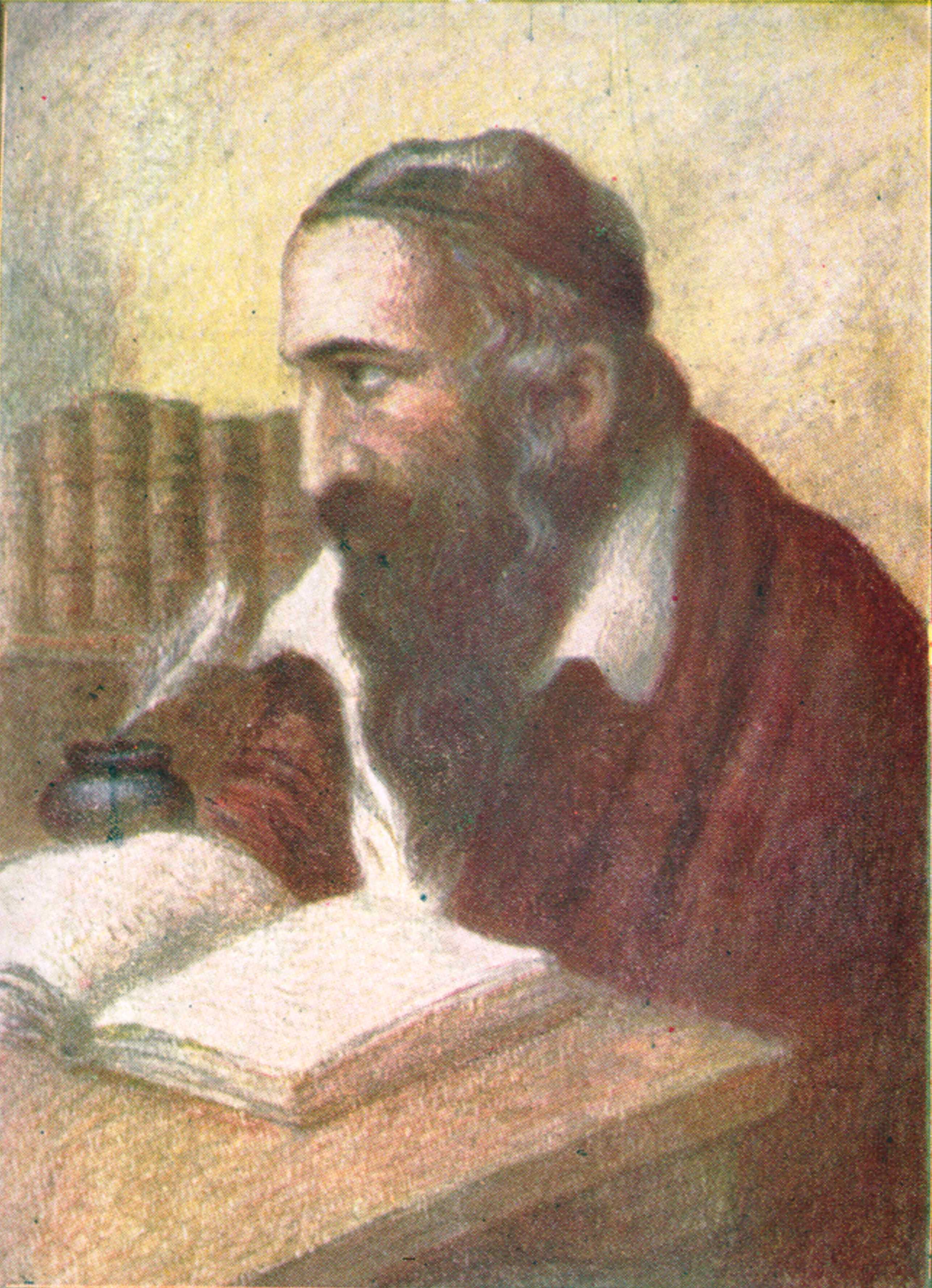 Rav Shabsai HaKohen - The "Shach"